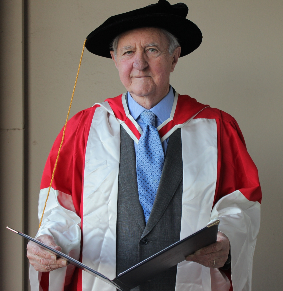 This is a photograph of Peter Coleman in robes.